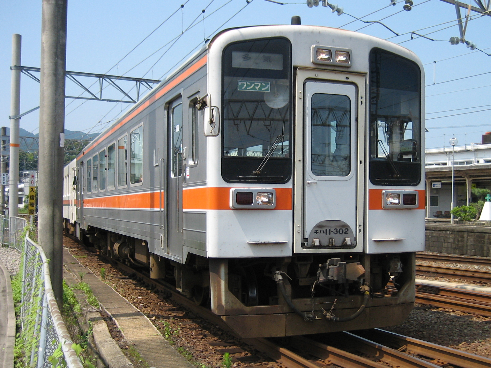 JR Central KiHa 11-302 diesel car at Shingu station on the Kisei Main Line